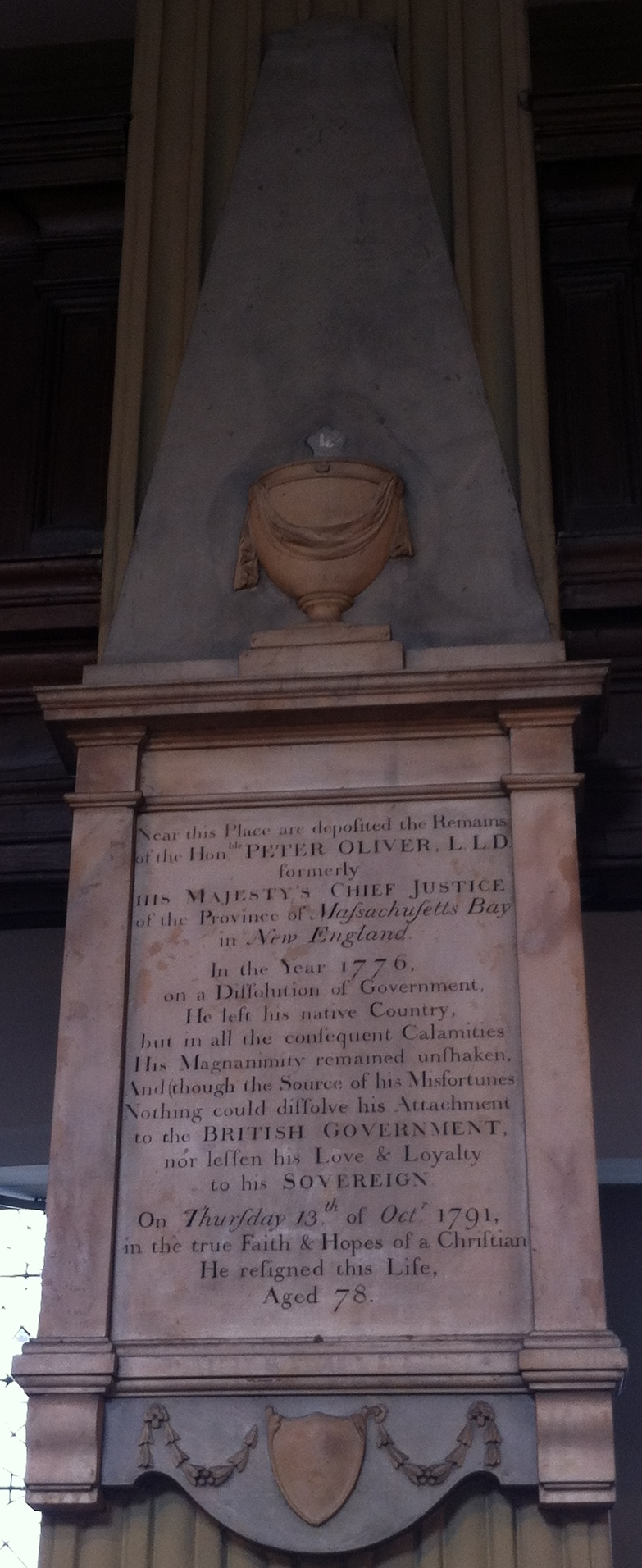 Honourable Peter Oliver LLD, formerly His Majesty's Chief Justice of the Province of Massachusetts Bay in New England. In the year 1776, on a dissolution of Government, he left his native country, but in all the consequent calamities, his magnanimity remained unshaken and though the source of his misfortunes nothing could dissolve his attachment to the British Government nor lessen his love and loyalty to his Sovereign. On Thursday 13 October 1791 in the true faith and hopes of a Christian, he resigned this life, Aged 78.